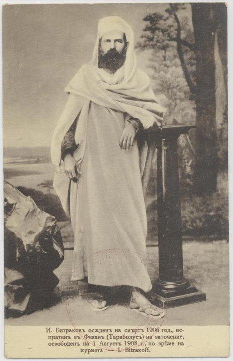 Portrait of IMARO member Ivan Bitrakov from Ohrid